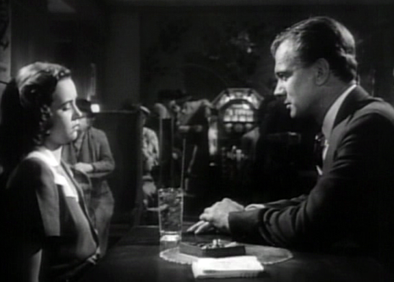 Teresa Wright and Joseph Cotten in 'Shadow of a Doubt' trailer. Alfred Hitchcock director.